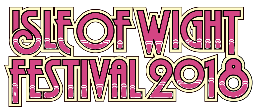 Logo of the 2018 Isle of Wight Festival